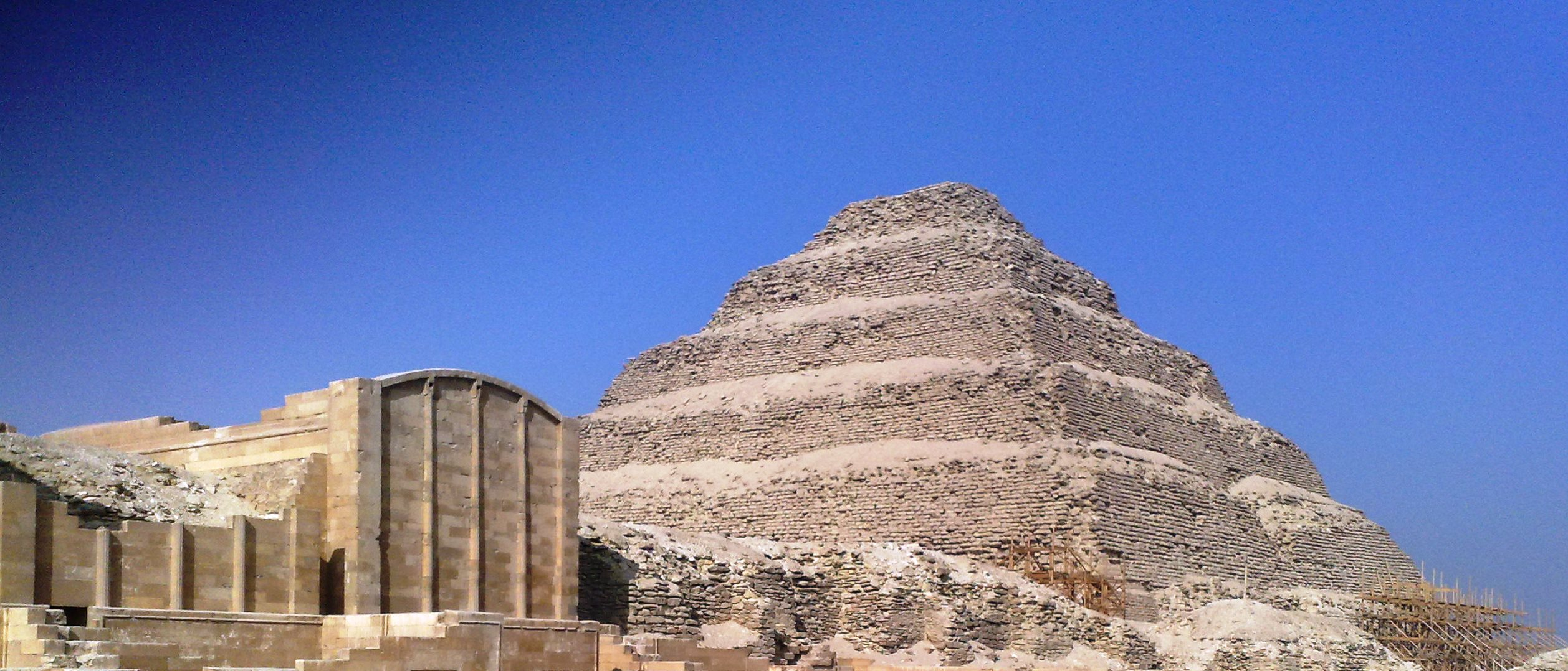 Stepped Pyramid of Djoser at Saqqara in Giza